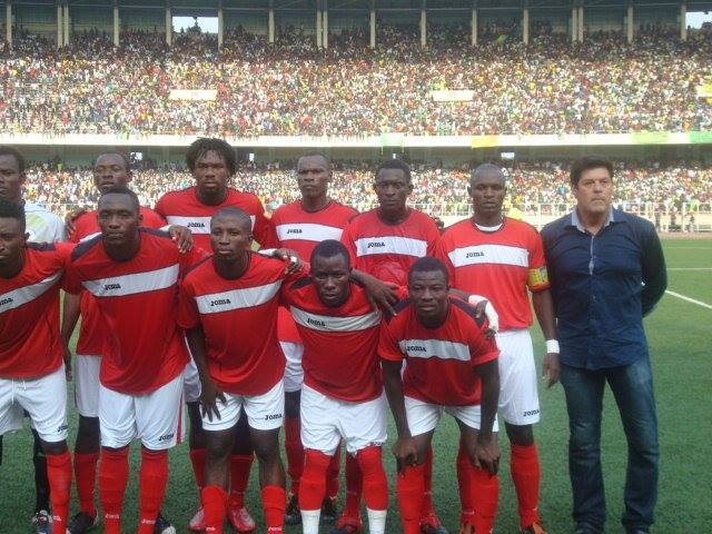 Luc Eymael with Missile Football Club in a friendly match against AS Vita Club. 8 January 2012 Stade des Martyrs, Kinhasa, DRC Congo